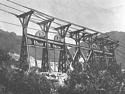 The Massawa-Asmara Tramway - Towers with dual counterweights